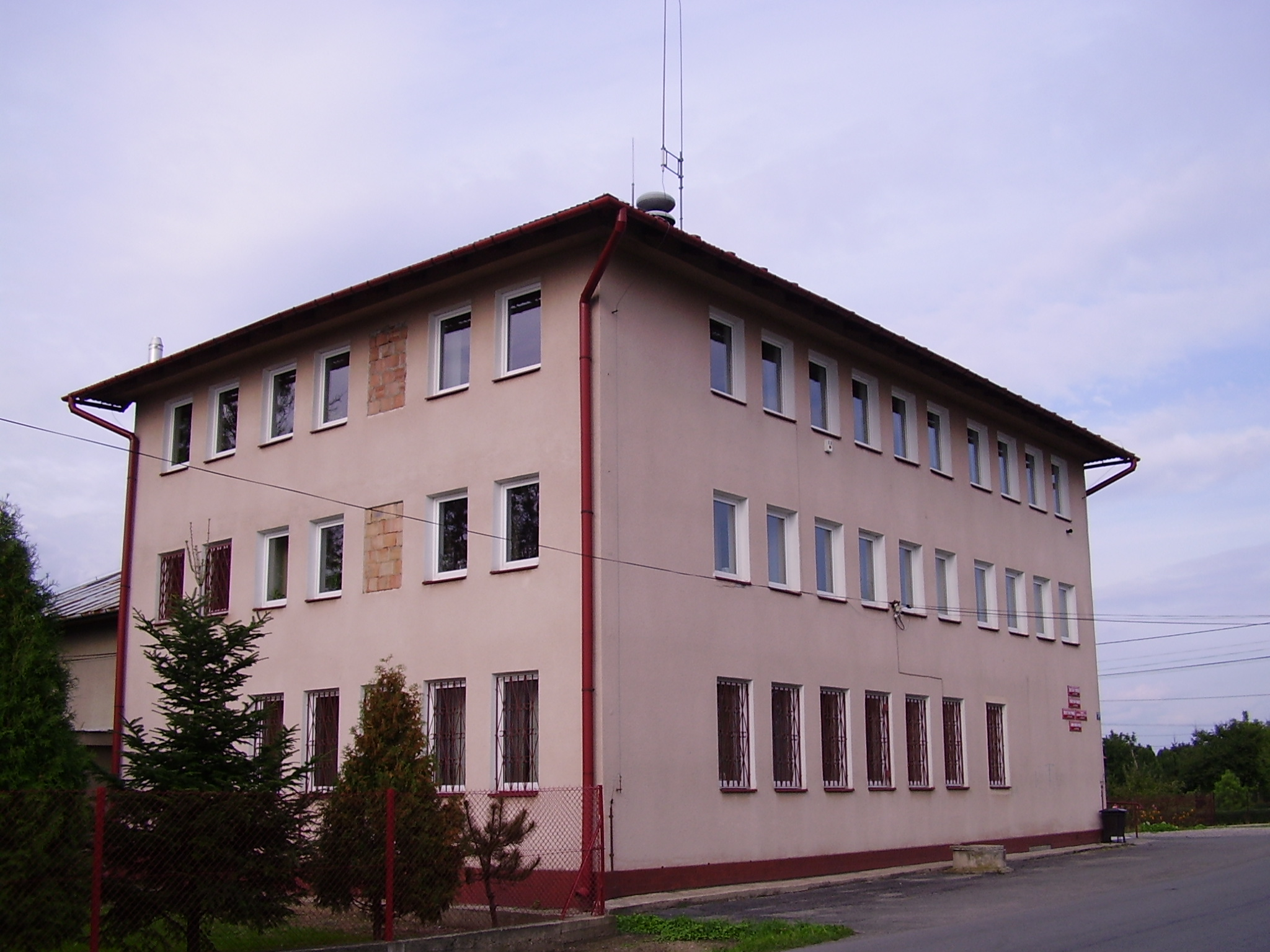 Commune Department in Rzezawa (Poland)